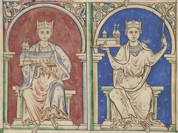 Portraits of English kings: Henry I Beauclerc and Stephen of Blois. (British Library, MS Royal 14 C VII f.8v)